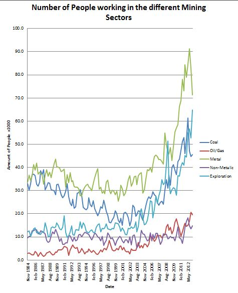 Amount of people employed by Australian according to the ABS